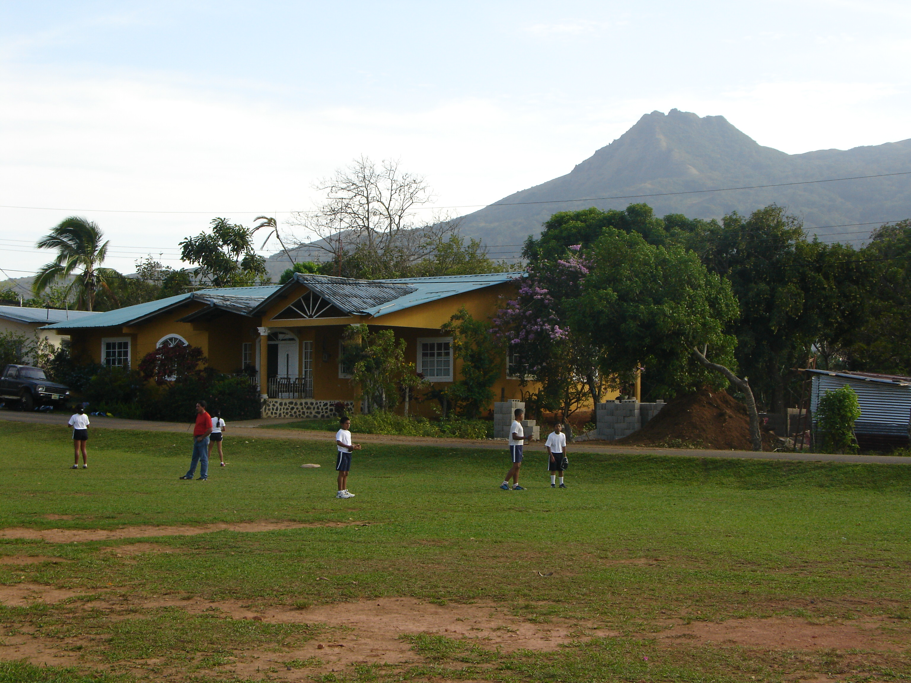 Children practicing baseball in Santa Fé de Veraguas, Panama. Mount "El Tute", symbol of the little town, is visible in the background.